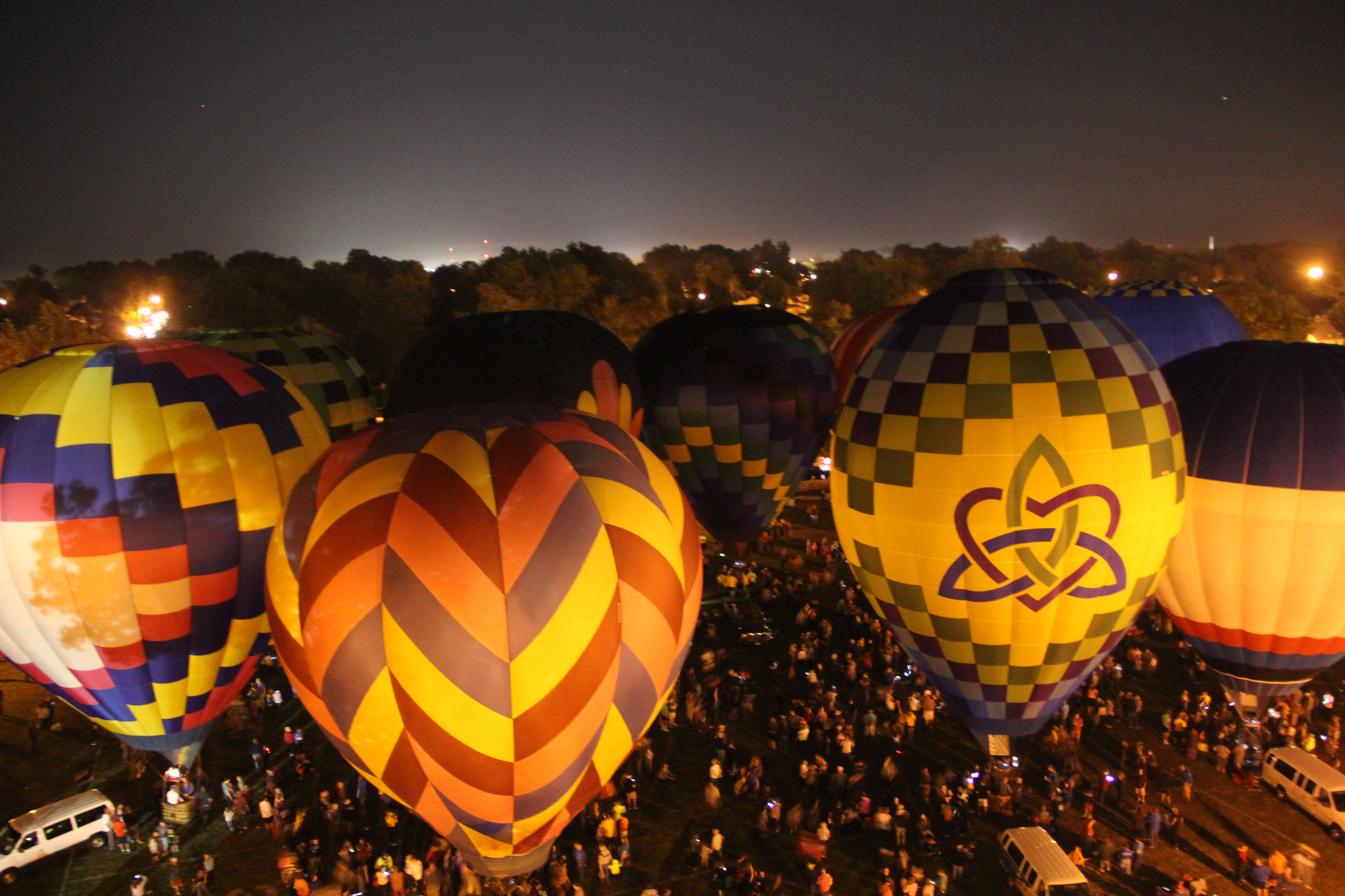 Every year QU hosts a hot air balloon glow to kick of Homecoming on Friars' Field!